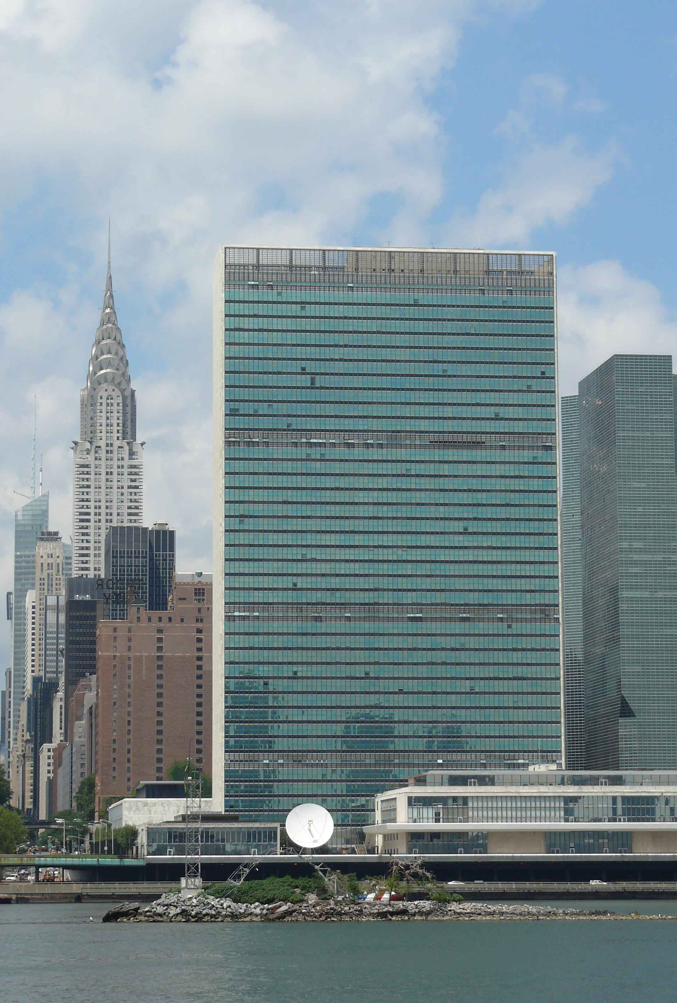 United Nations Headquarters and the Chrysler Building as seen from the East River. The United Nations Headquarters is a distinctive complex in New York City that has served as the official headquarters of the United Nations since its completion in 1950. The Chrysler Building is an Art Deco skyscraper in New York City, located on the east side of Manhattan in the Turtle Bay area at the intersection of 42nd Street and Lexington Avenue.